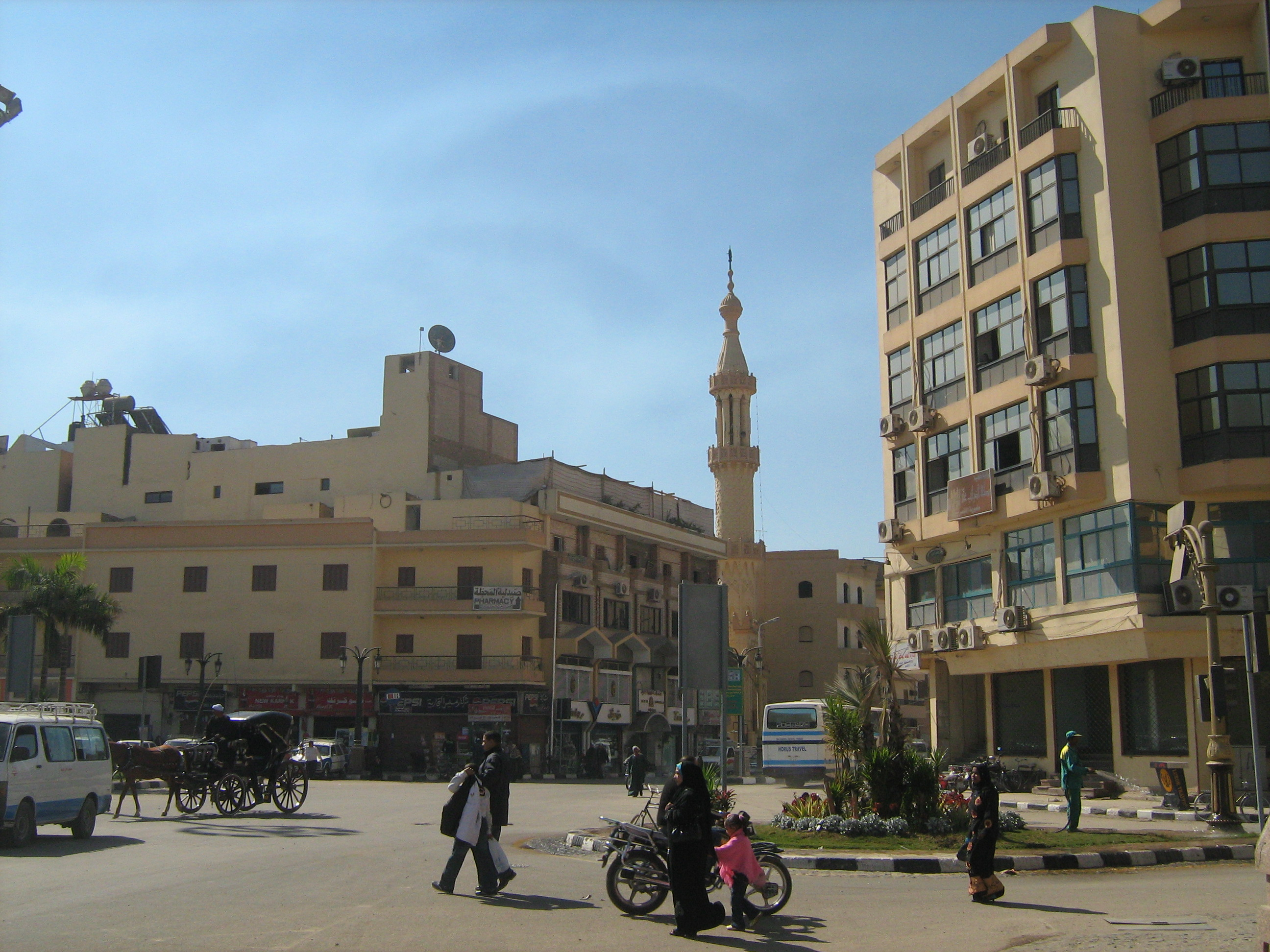 Luxor - Shari Ramsses